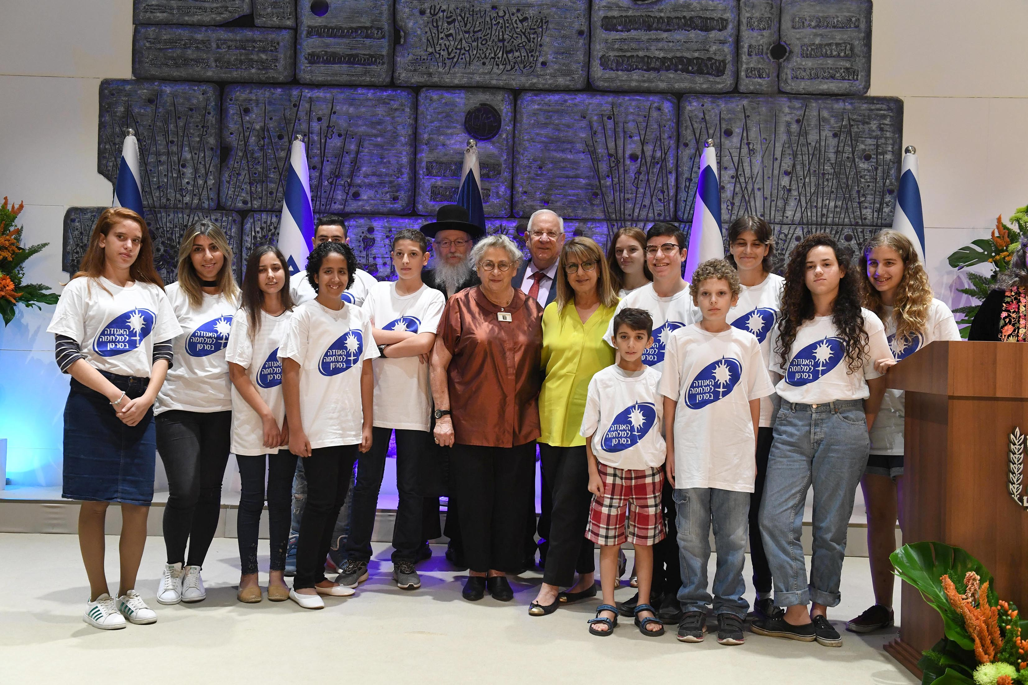 President of the State of Israel, Reuven Rivlin, at the opening of the ICA's annual year of work. Monday, October 2, 2017. Photo Credit: Mark Neyman / GPO.